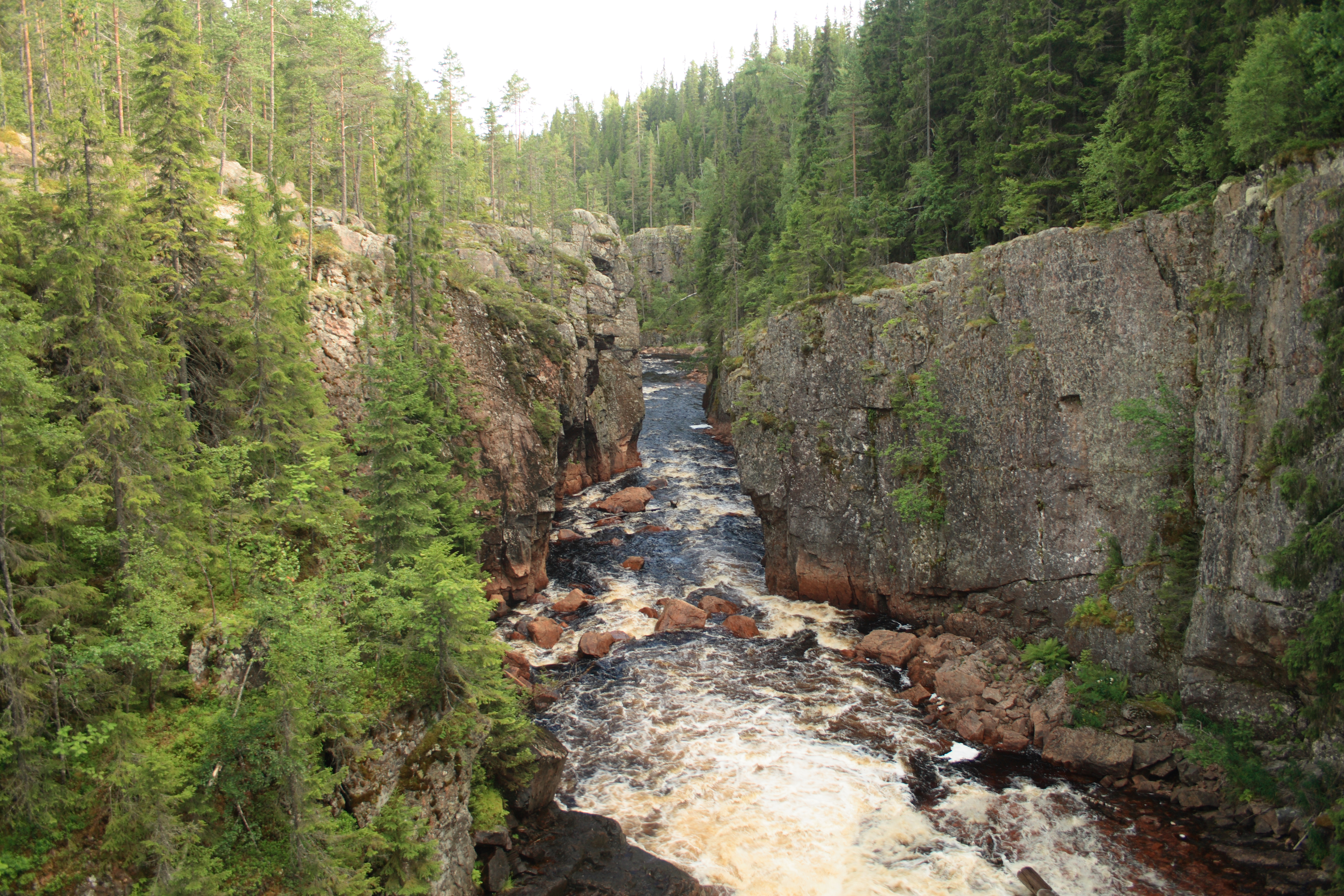 Helvetesfallet (Hell Falls), looking downstream to the south, on the Ämån river in Orsa, Sweden.